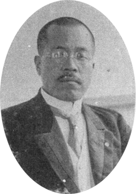 Tamaki Maruyama, former director of the Sixth Higher School.